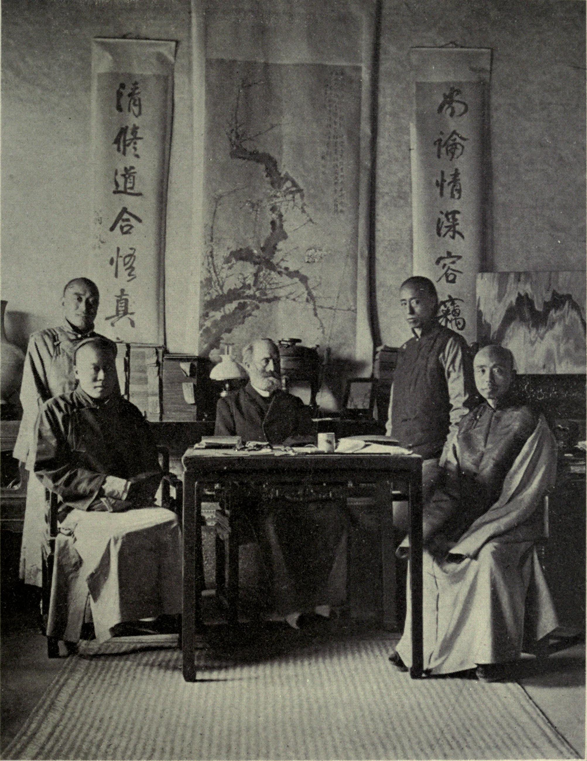 W. A. P. Martin and some of his students.